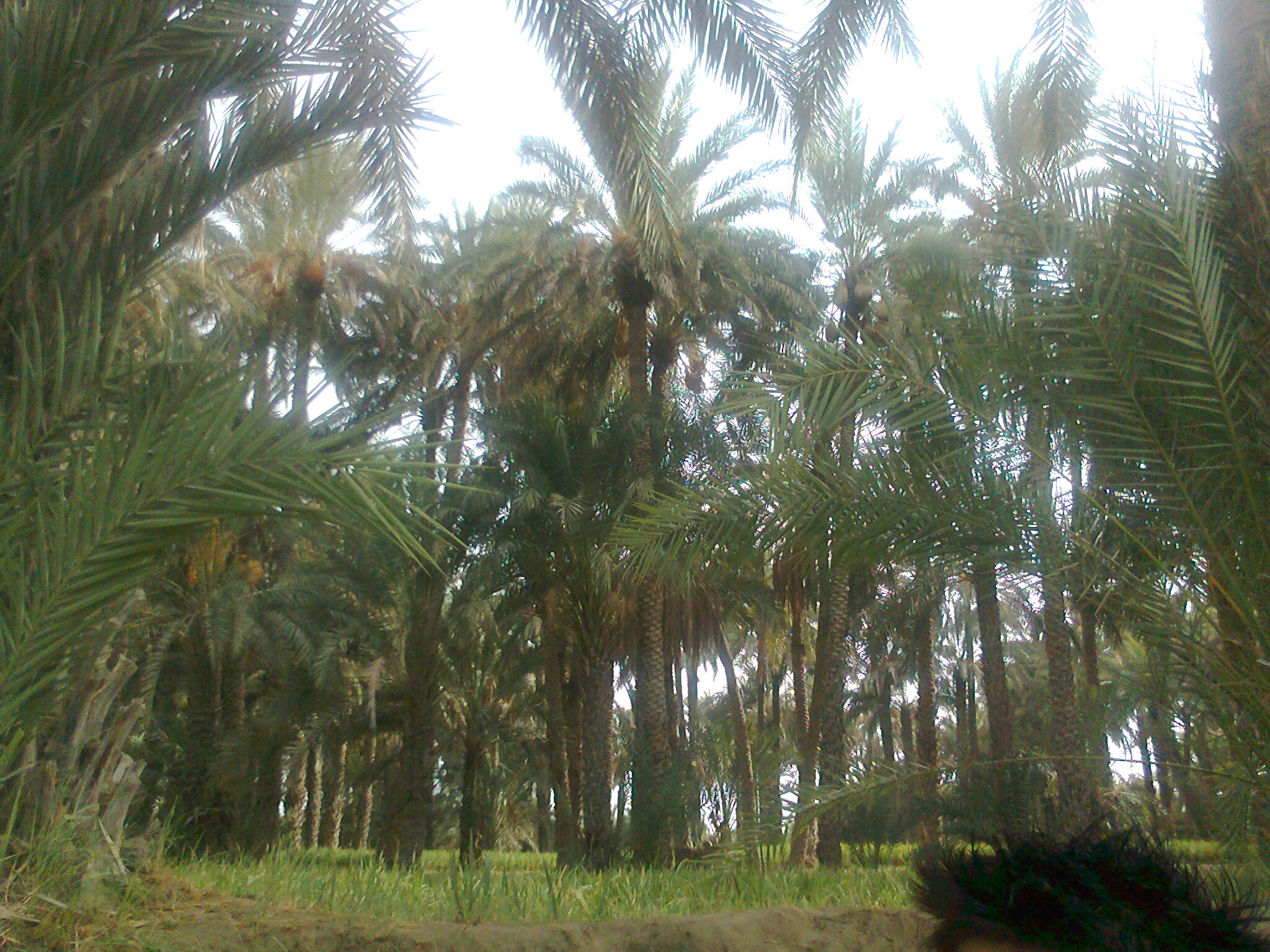 a nice pic of date palms in Tejaban